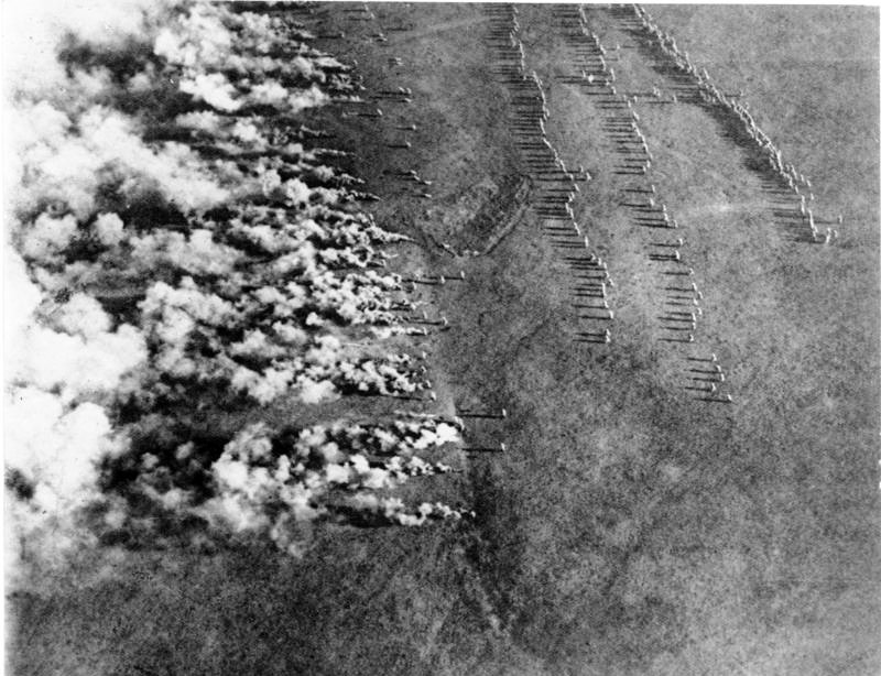 This image shows a World War I German gas attack on the eastern front, and was photographed from the air by a Russian airman. The image was titled, "German Frightfulness from the Air"